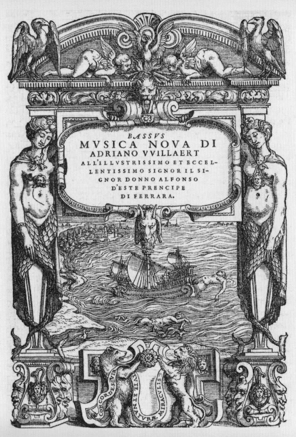 Adriaen Willaert. Musica nova. Title page of his music publication, 1559